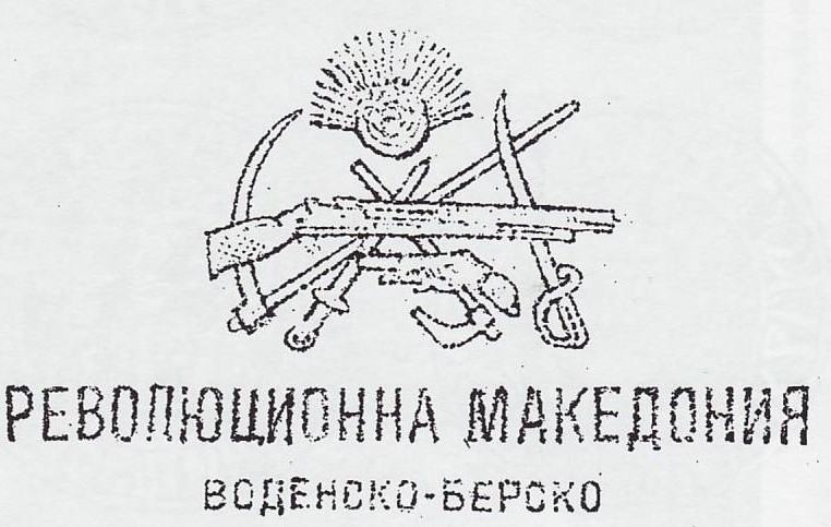 Seal of IMARO